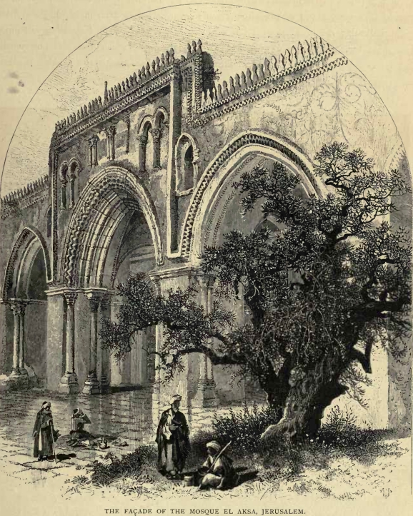 el_aksa, Jerusalem 1880